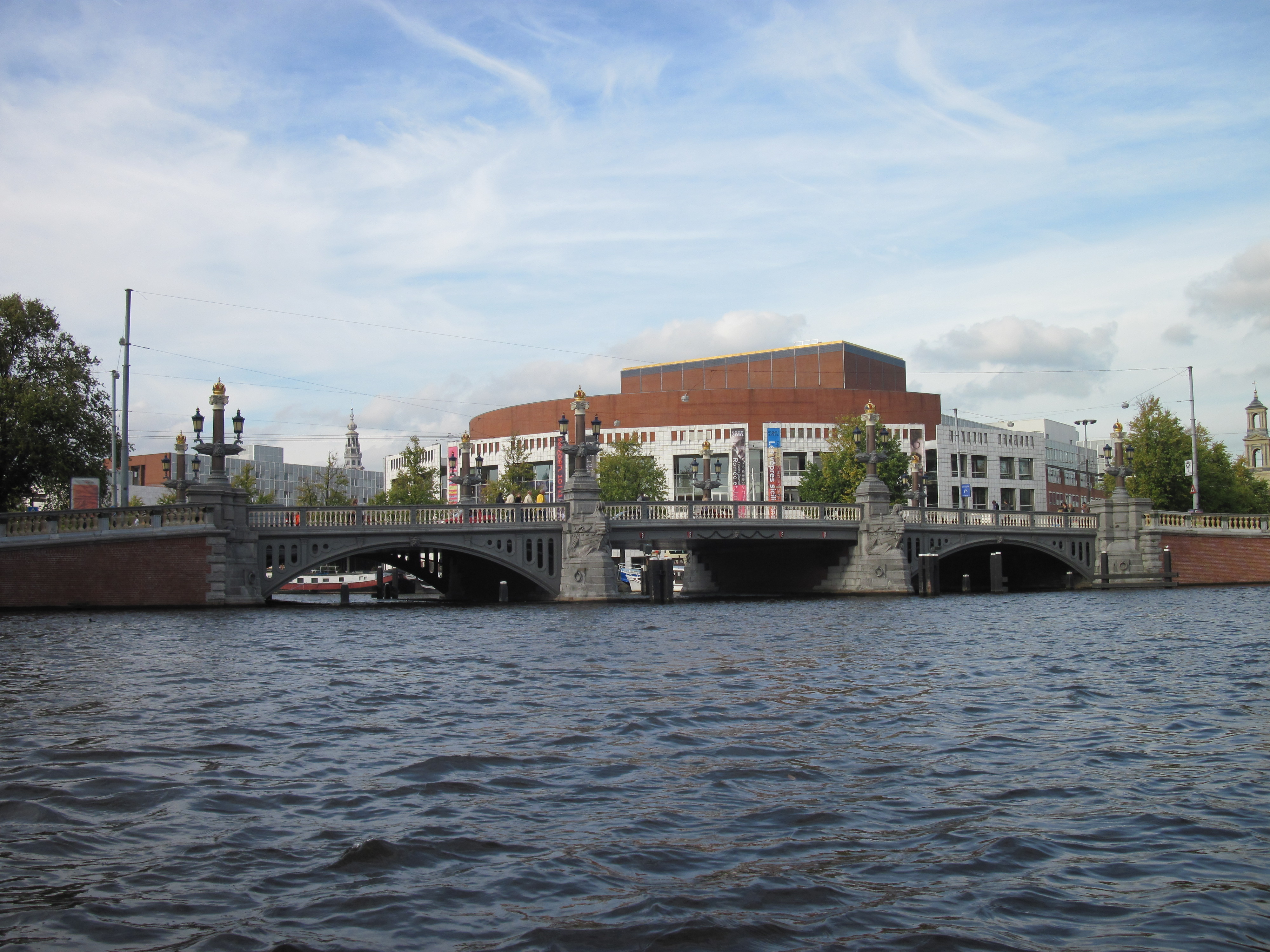 Amstel, Blue bridge, Stopera